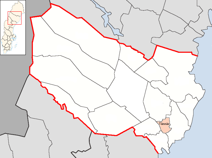 Vännäs Municipality in Västerbotten County Designed by me. Mere outlines are a PD source from